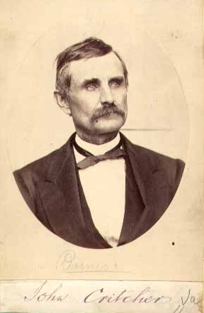 Portrait of John Critcher